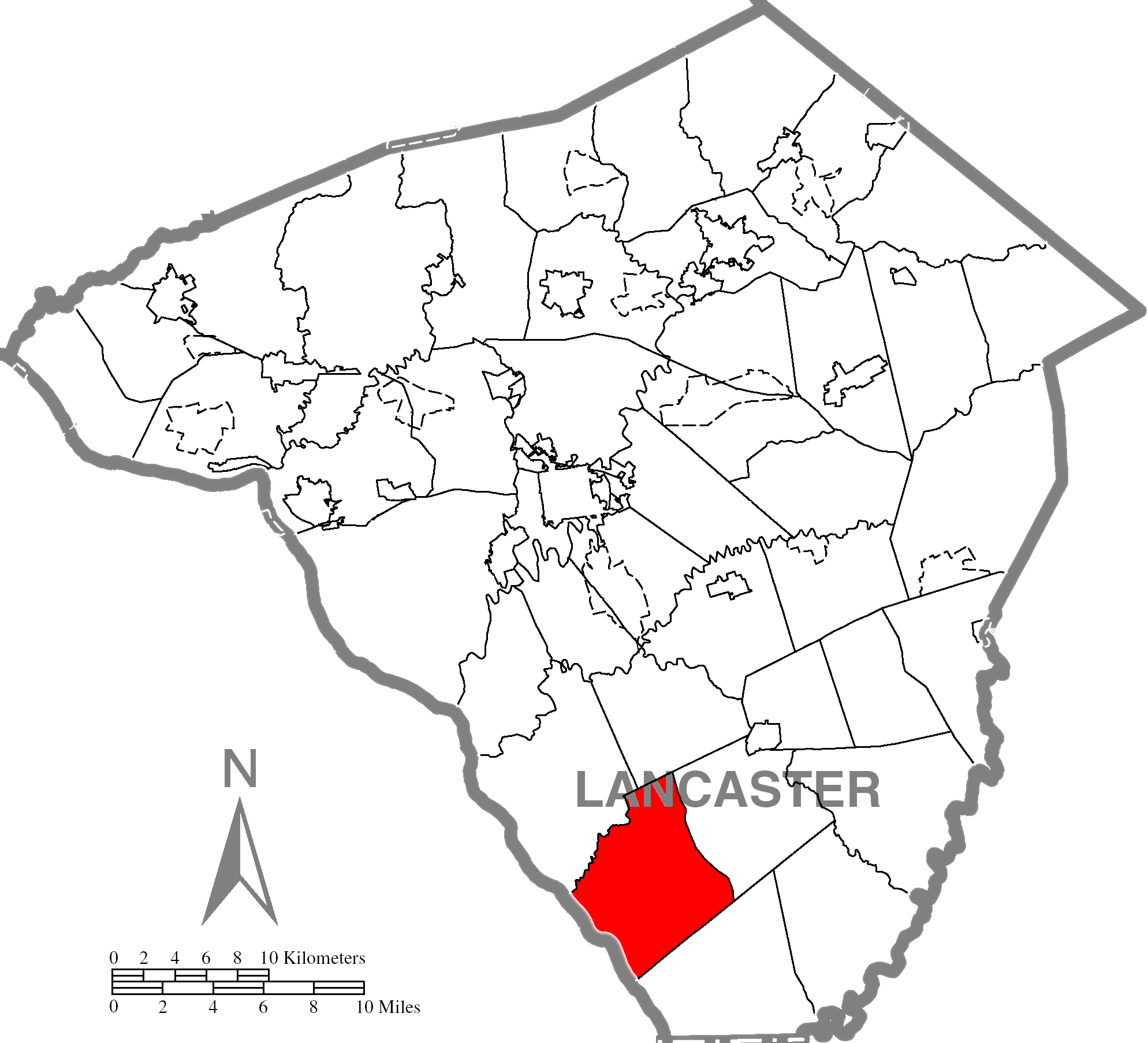 Highlighted Lancaster County map of Drumore Township.